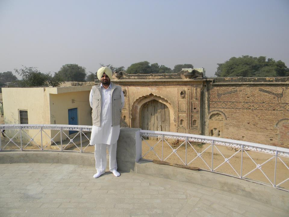 the beauty of village